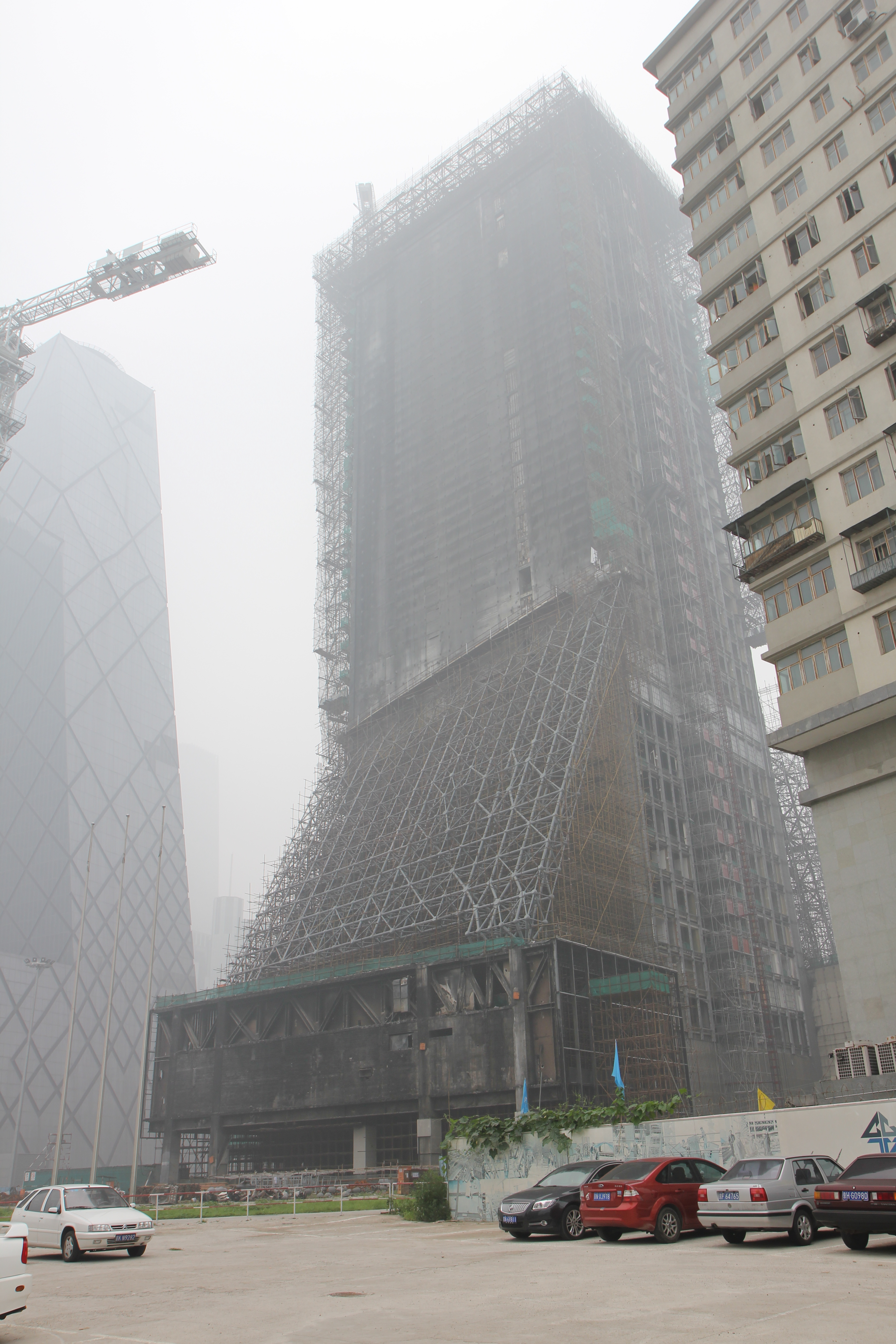 The Beijing Television Cultural Center as seen in July 2011 next to the CCTV Headquarters in Beijing. Construction has resumed after the fire.